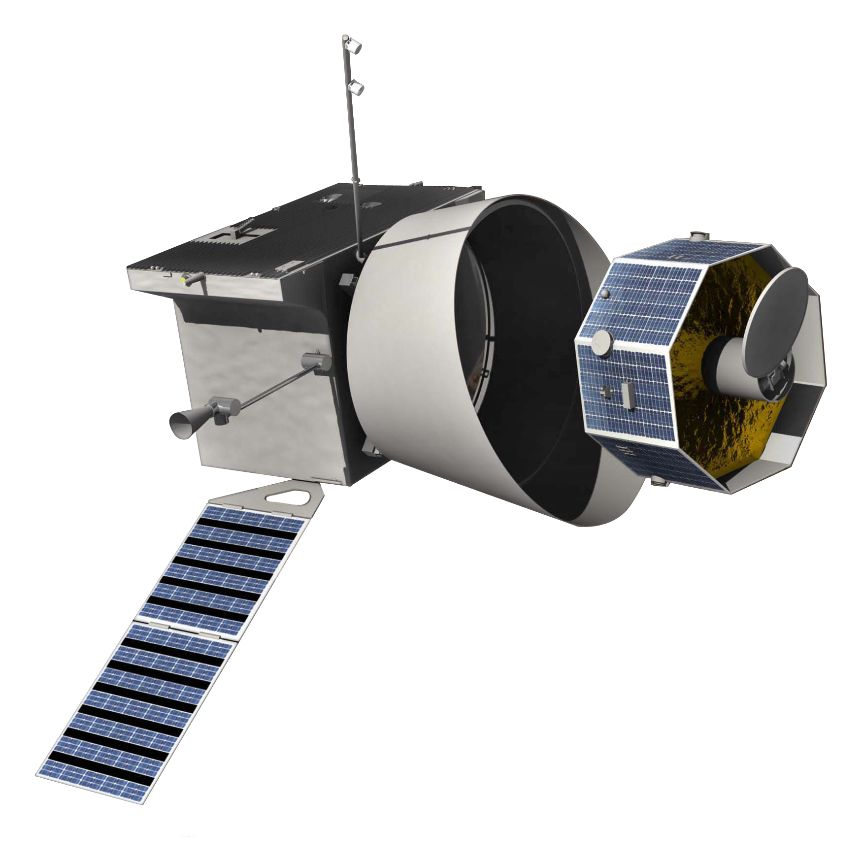 Artist's rendering, from NASA, of the constituent spacecraft of the European Space Agency's BepiColombo mission, in their cruise phase configuration. The Mercury Planetary Orbiter on the left and the Mercury Magnetospheric Orbiter on the right, with a sunshade module at center.